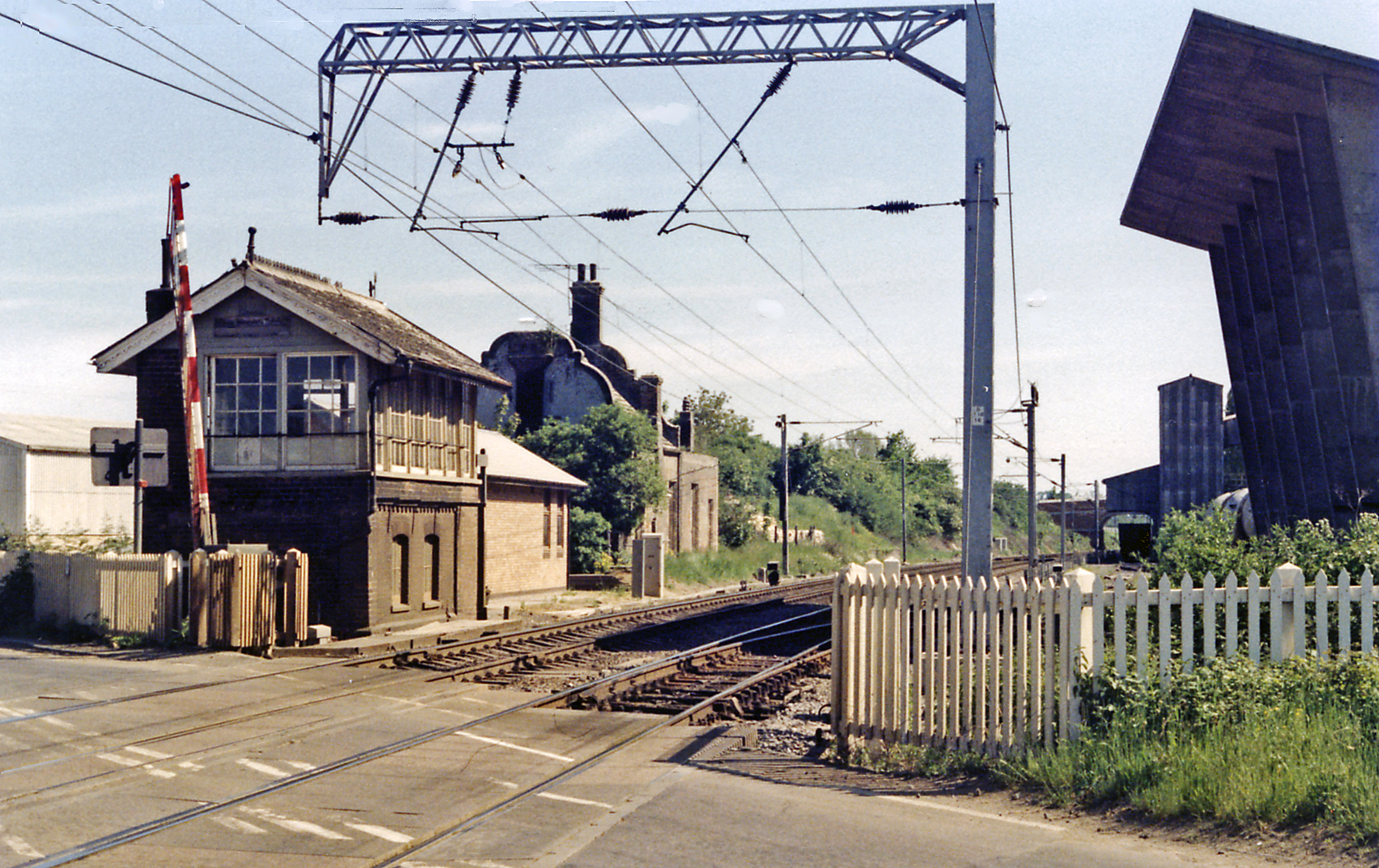 Claydon station (remains), 1985, View southward, towards Ipswich and London: ex-GER London - Ipswich - Norwich main line. Although the wires are up, electric trains had only begun to reach Ipswich on 13/5/85 and did not run on to Norwich until 11/5/87! However, this station was closed to passengers from 17/6/63, to goods from 31/3/71. The signalbox was evidently still active - but what was the strange building on the right?